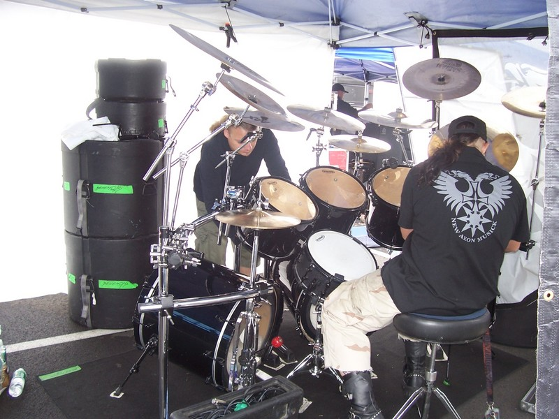 Behemoth band preparing for gig at Ozzfest 2007